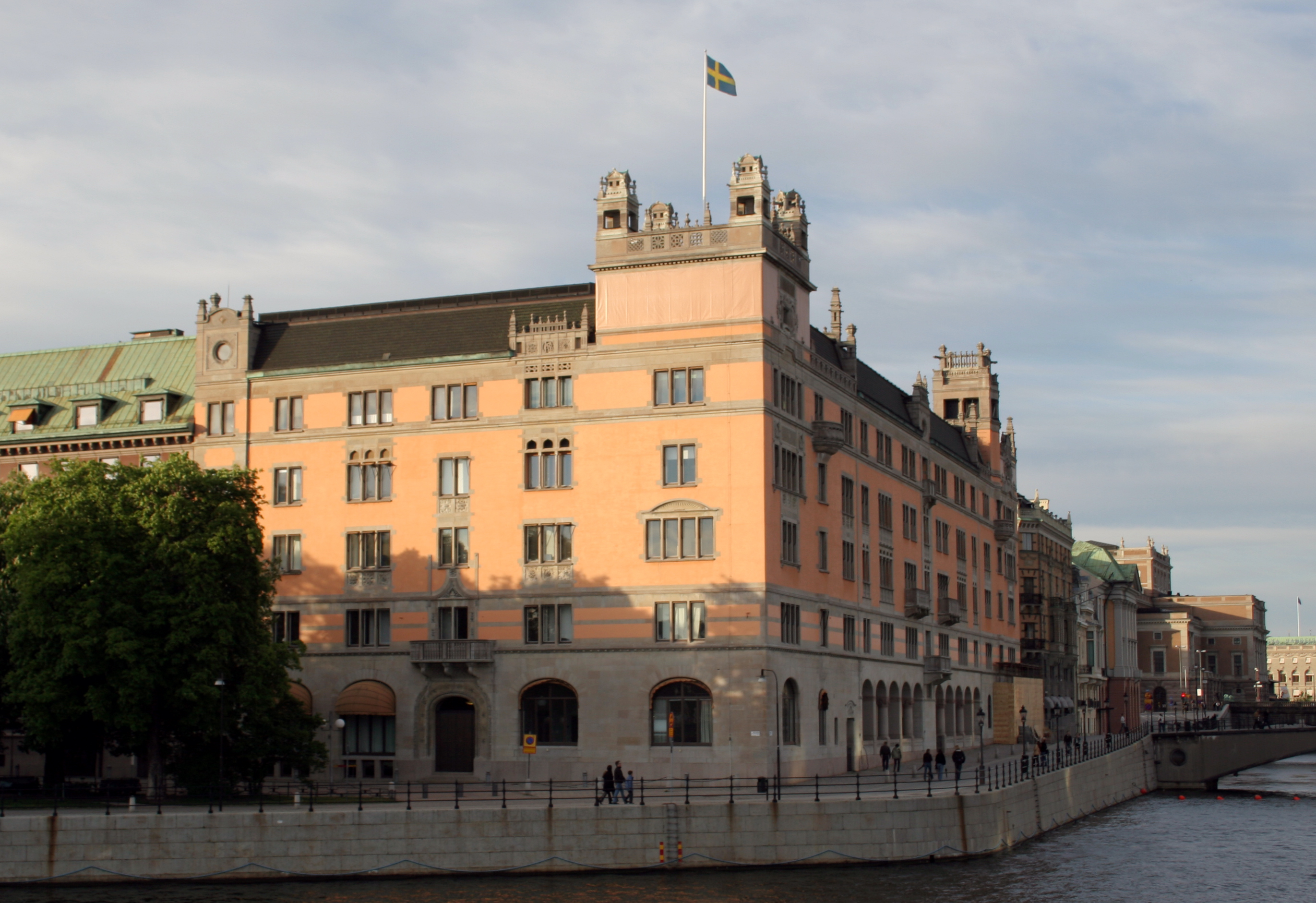 Rosenbad, Stockholm, Sweden. The house of the Swedish Government.